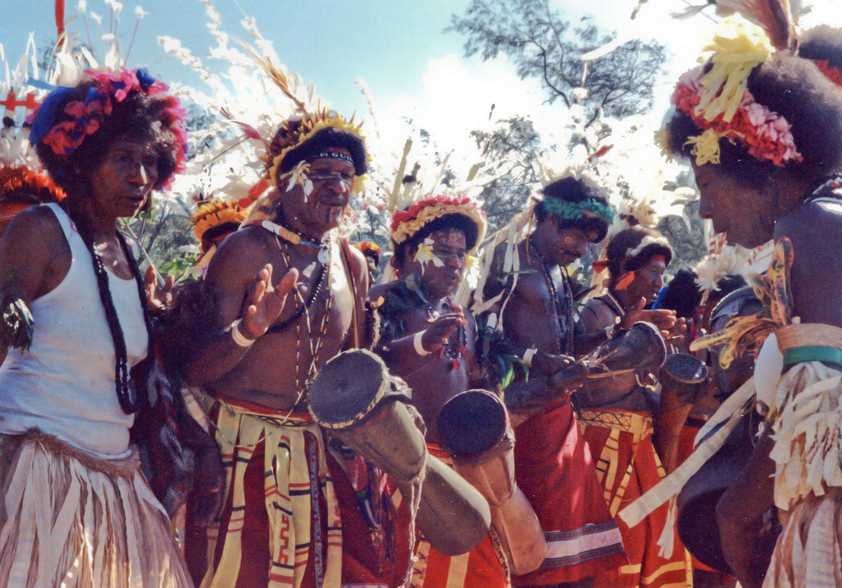 Drummers and dancers from each village on the beach of Port Moresby.